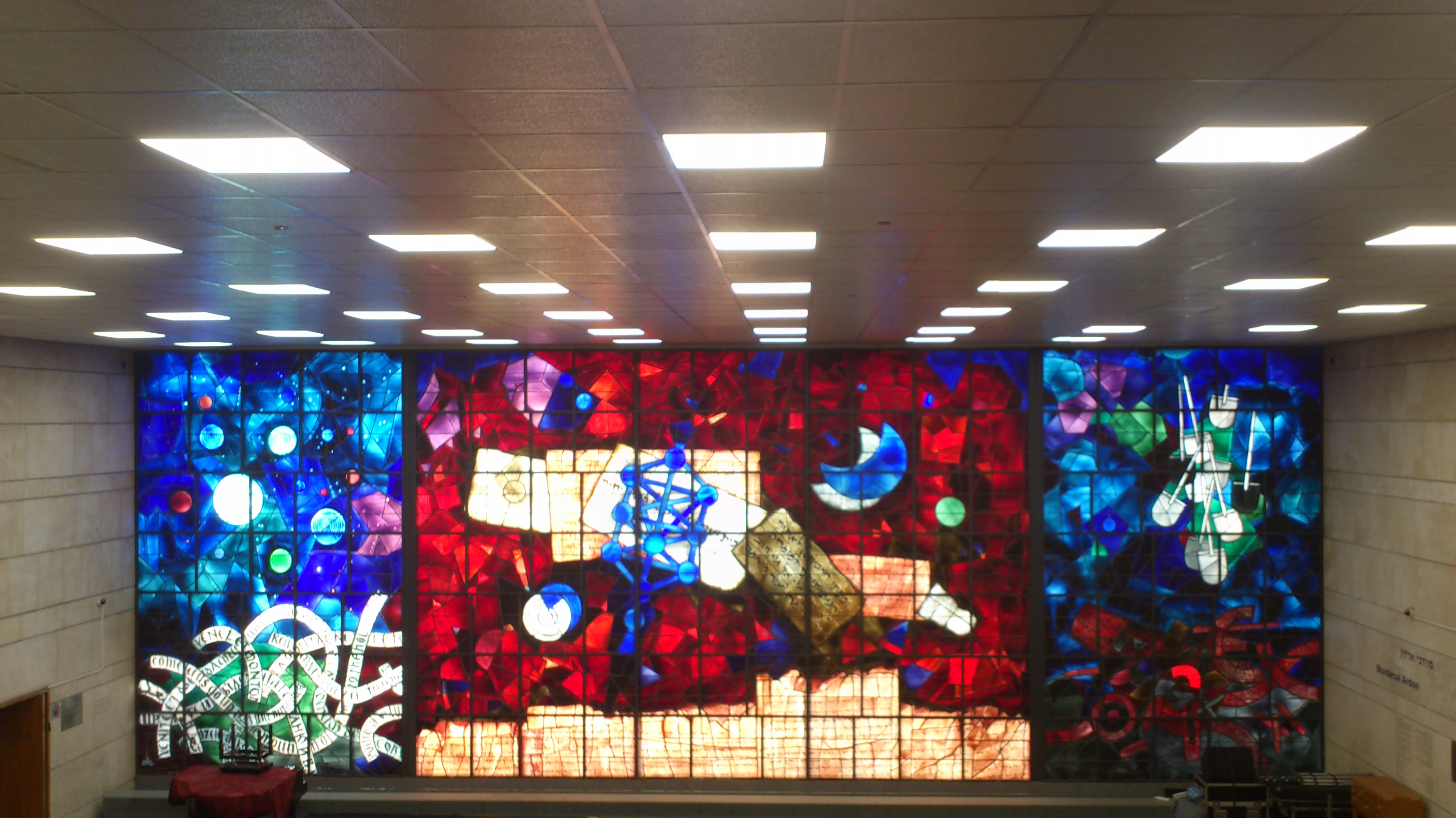 Ardon Windows